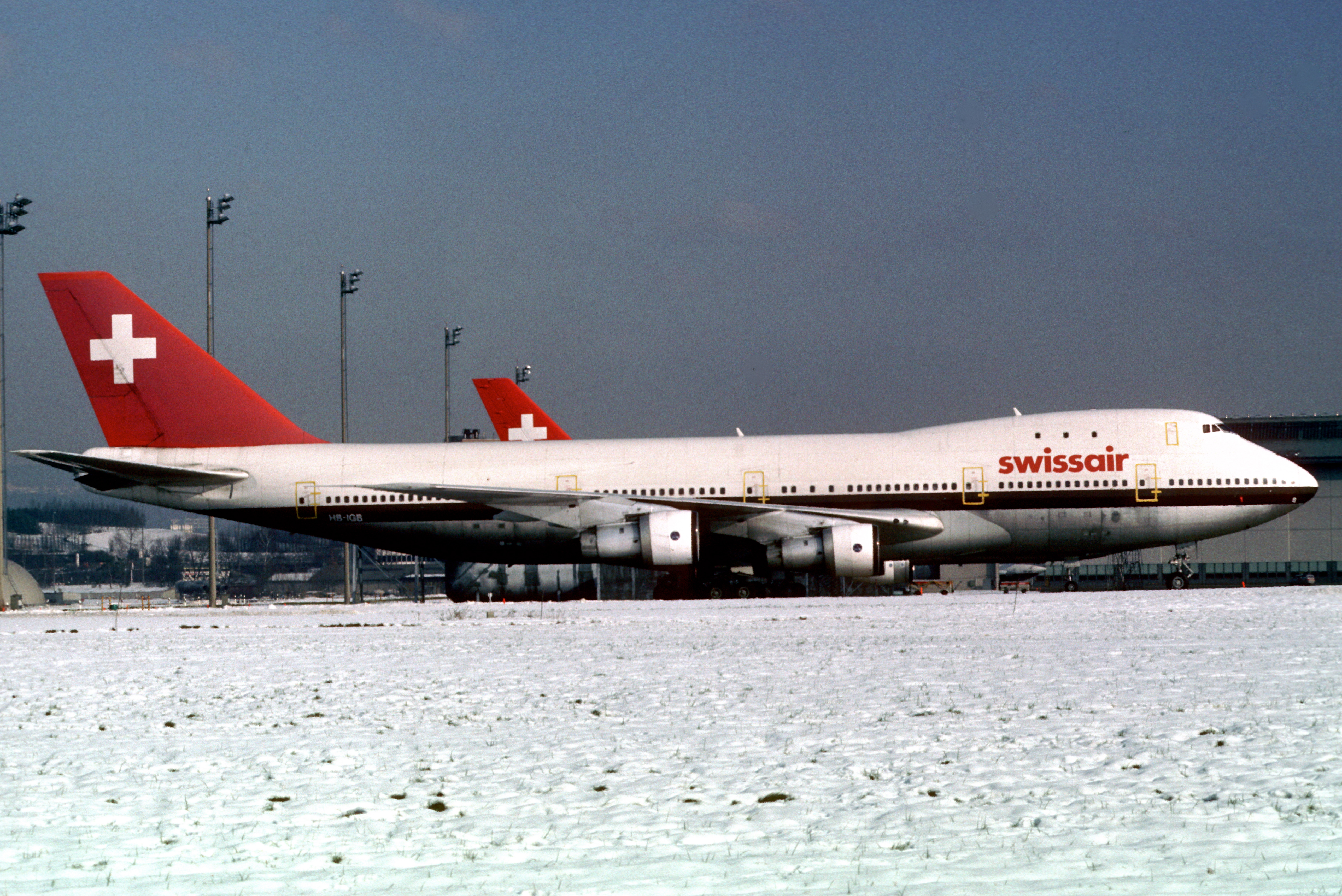 HB-IGB, Swissair's second 747 (out of seven) is pictured parked and withdrawn from use after serving the Swiss national airline for almost 13 years. The Jumbo was replaced by a newer 747-300...this aircraft took its first flight on March 13, 1971... 25/03/1971 Swissair HB-IGB 15/04/1984 National Airlines N304TW 15/05/1984 Egyptair SU-GAK 26/03/1985 National Airlines N304TW 01/04/1985 TWA N304TW 15/05/1991 Nationair N304TW 16/05/1993 Air Atlanta Icelandic, subleased to Saudi Arabian TF-ABL broken up at Ardmore around 1997/ 1998...